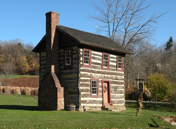 Picture of the Fulton Log House in Upper St. Clair Township, Allegheny County, Pennsylvania, on November 14, 2009. The house was built circa 1830, and it's listed on the National Register of Historic Places.